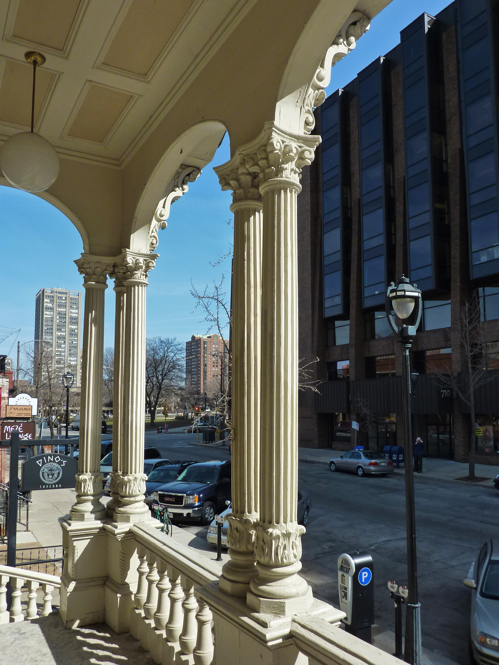 Veranda and columns of the Matthew Keenan Double Townhouse (1860) at 777 N. Jefferson Street in Milwaukee, Wisconsin. Designed by E. Townsend Mix in the Italianate style, this two-family townhouse was home to Matthew Keenan, who served as a state legislator and went on to become vice president of Northwestern Mutual Life Insurance Company. Built of Cream City brick and limestone, it features curved staircases with cast-iron newel posts. Only the front facade was preserved when the building burned in 1984, and the interior was entirely rebuilt.